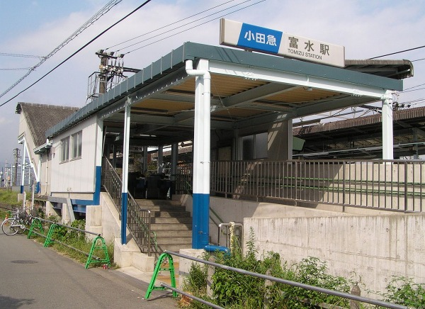 Tomizu Station west exit, on the Odakyu Odawara Line, Odawara, Kanagawa 富水駅